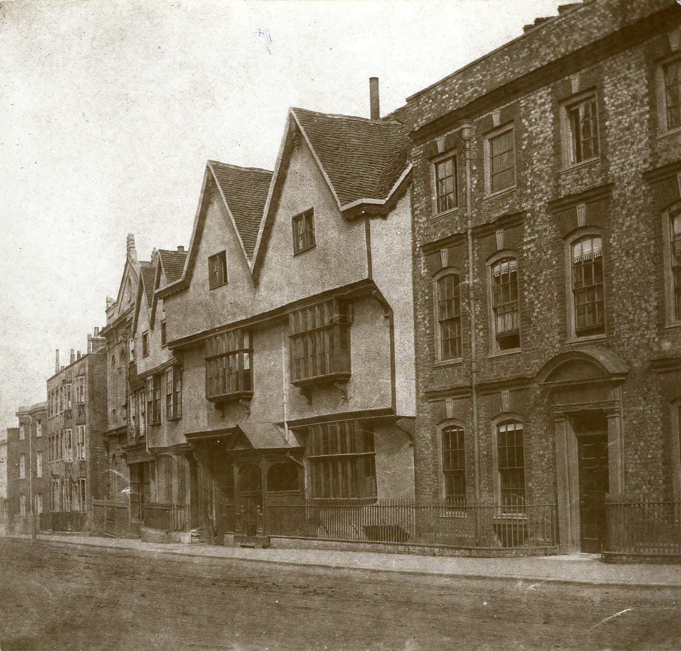 Castle Street, Reading. South side, showing the Independent Chapel (later Congregational Chapel), No. 15, No. 17 (Lyndhurst House), and No. 19 (Devonshire House). 1840-1849 : photograph by W. H. Fox Talbot: the original is in the Science Museum/Science and Society Picture Library.